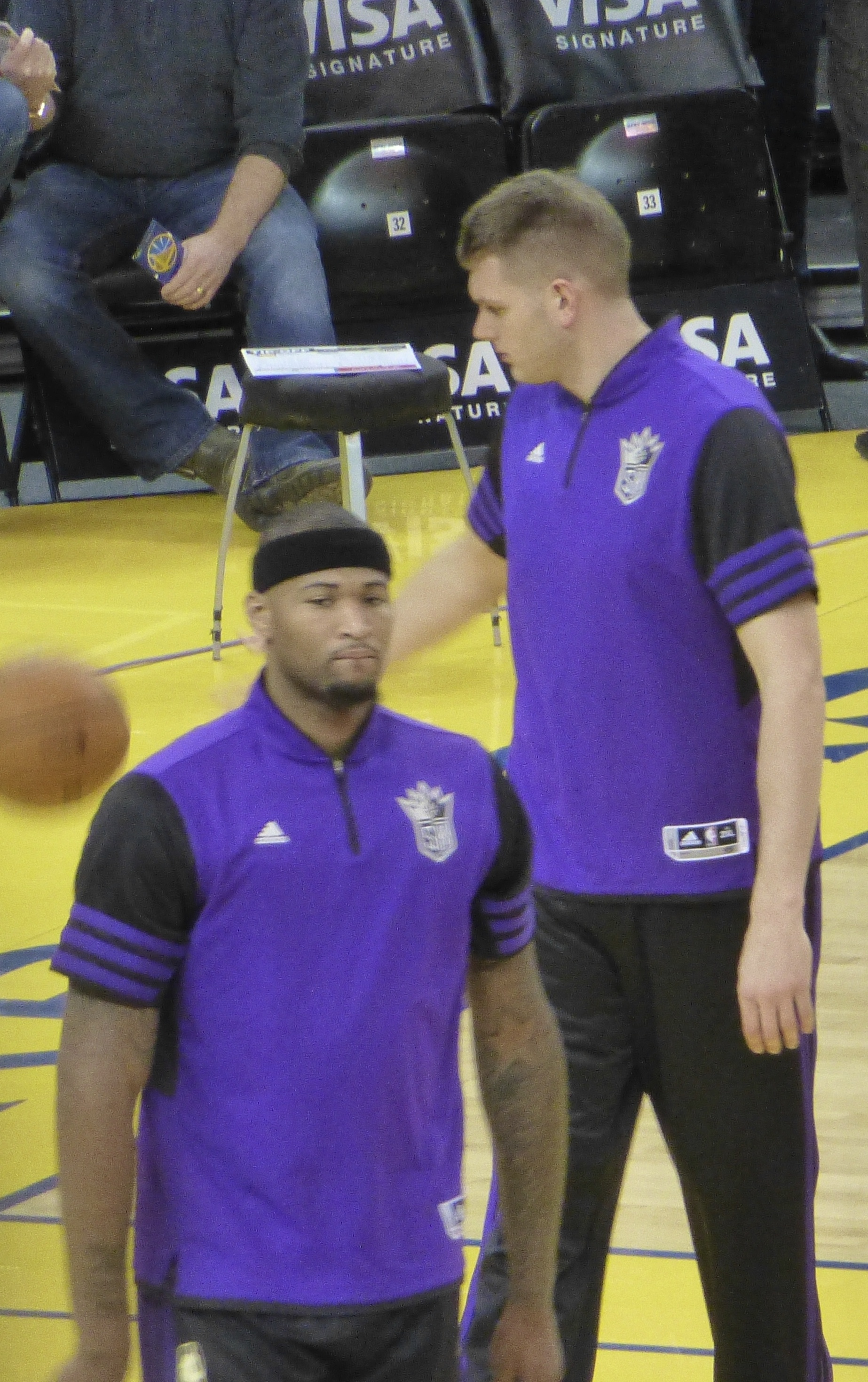 DeMarcus Cousins (left) and Cole Aldrich (right), Sacramento Kings at Golden State Warriors March 6, 2013